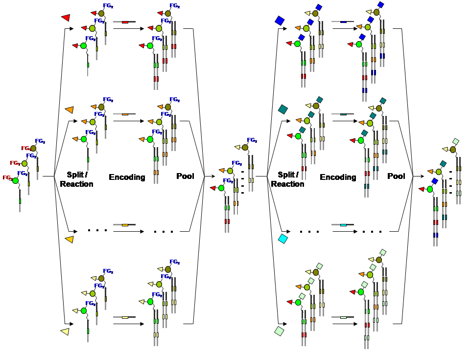 Schematic representation of a DNA-encoded library by stepwise coupling of coding DNA fragments to nascent organic molecules.